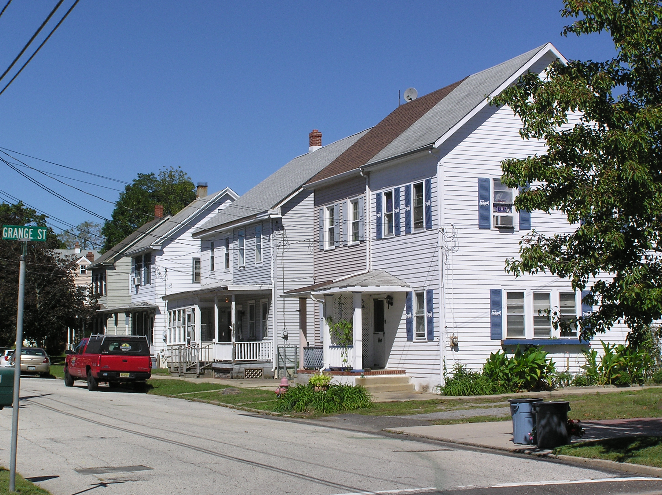 A row of houses on Plum Street in the Vincentown Historic District, located in Southampton Township, NJ.